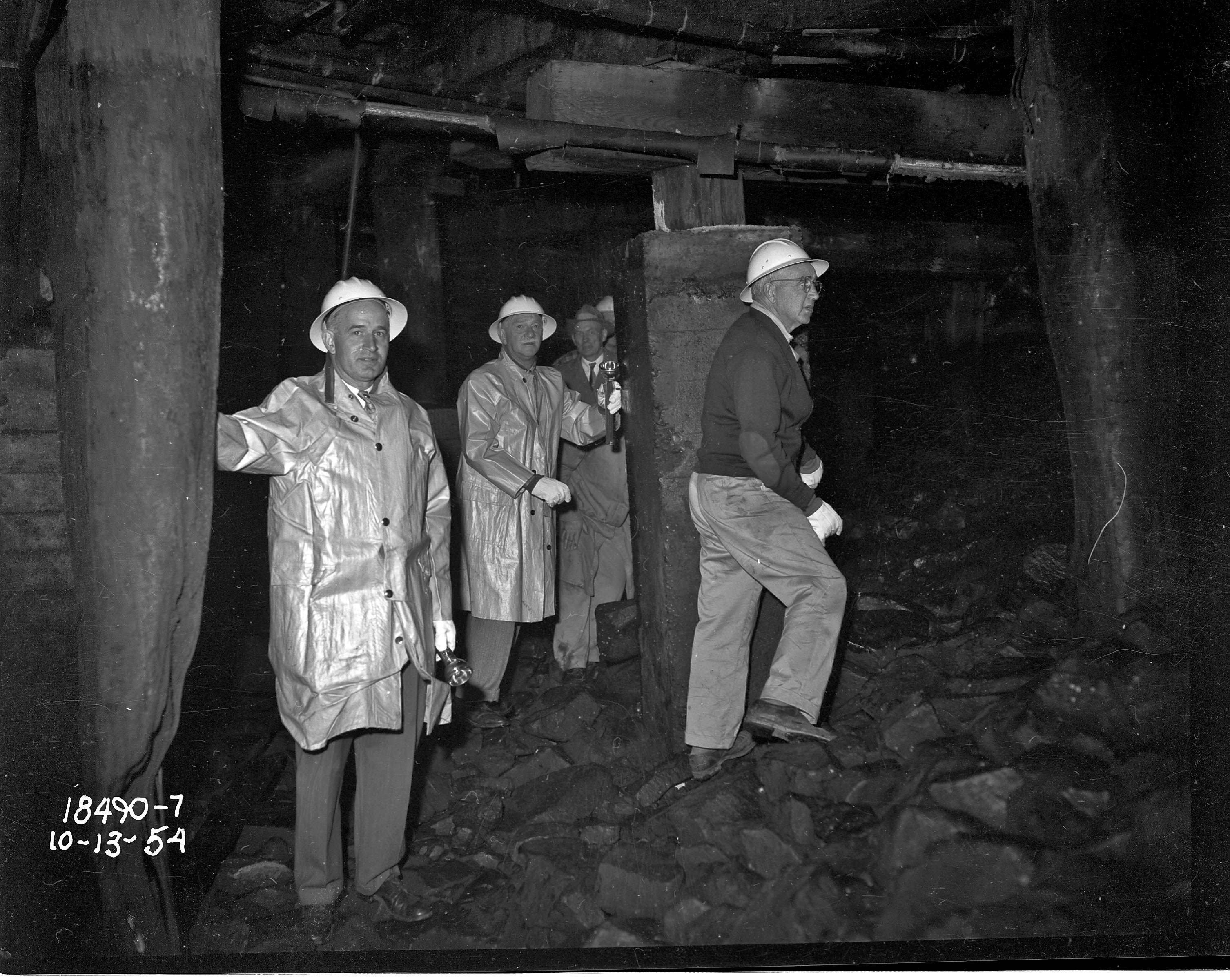 Seawall inspection, Seattle, Washington, U.S., 1954. Item 46032, Engineering Department Photographic Negatives (Record Series 2613-07), Seattle Municipal Archives.